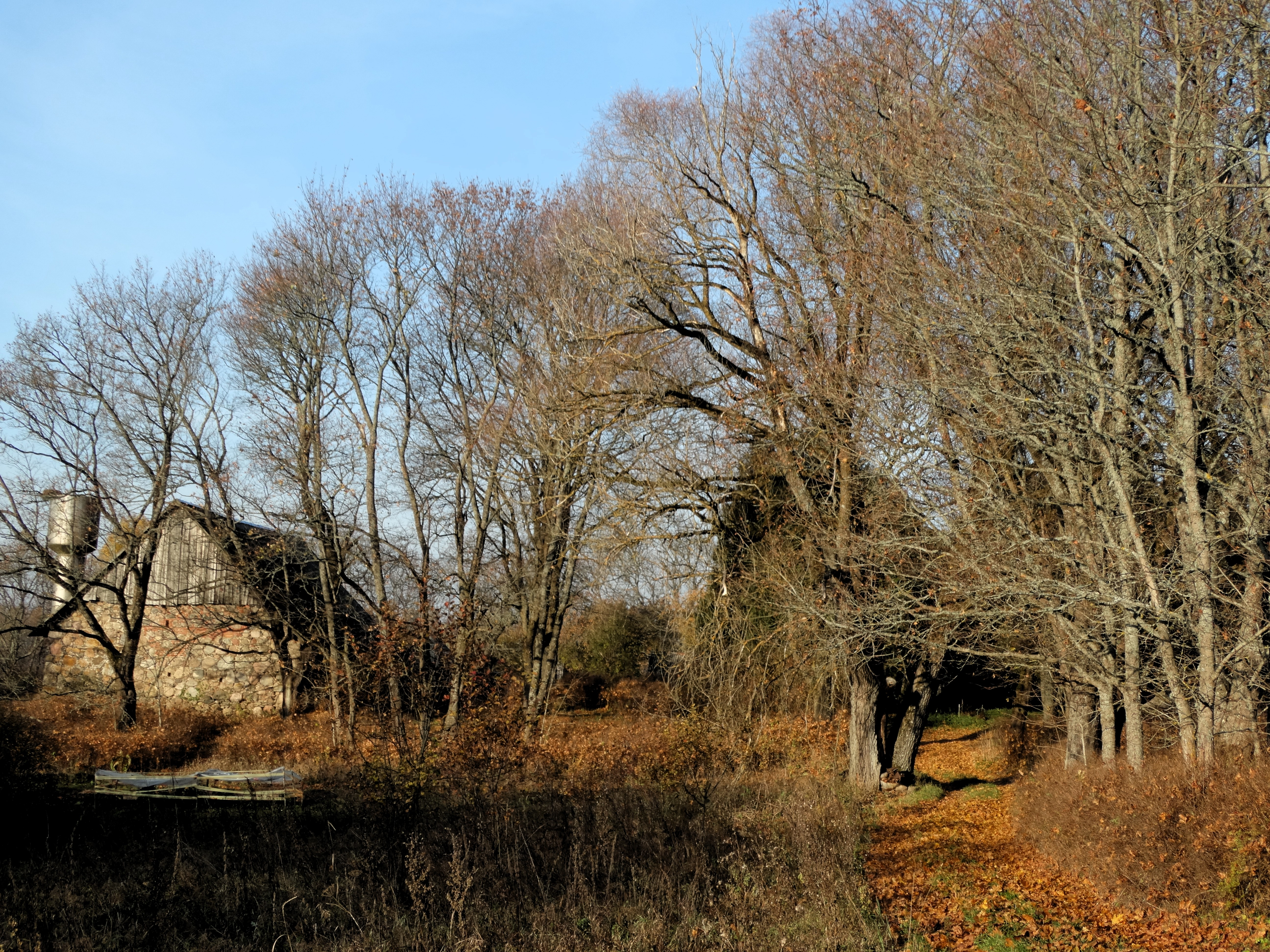 Former manor, Narkyčiai, Zarasai district, Lithuania